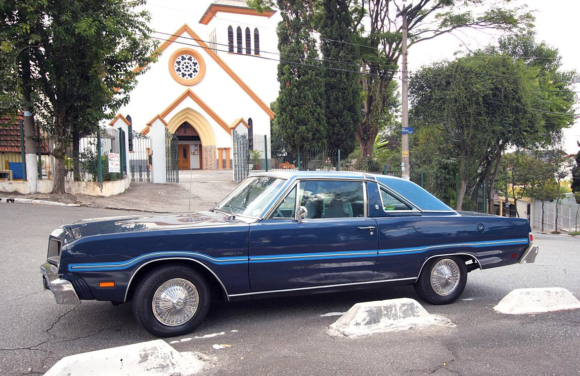 Dodge Magnum 1979 from Brazil Museu do Dodge Curitiba Brasil